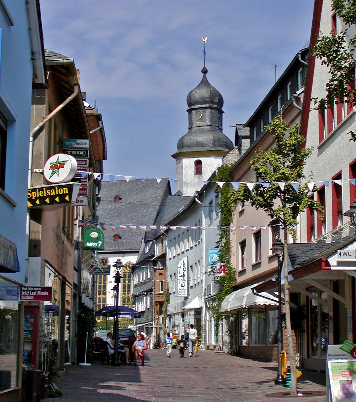 Photo of Simmern, Rhineland-Palatinate, Germany